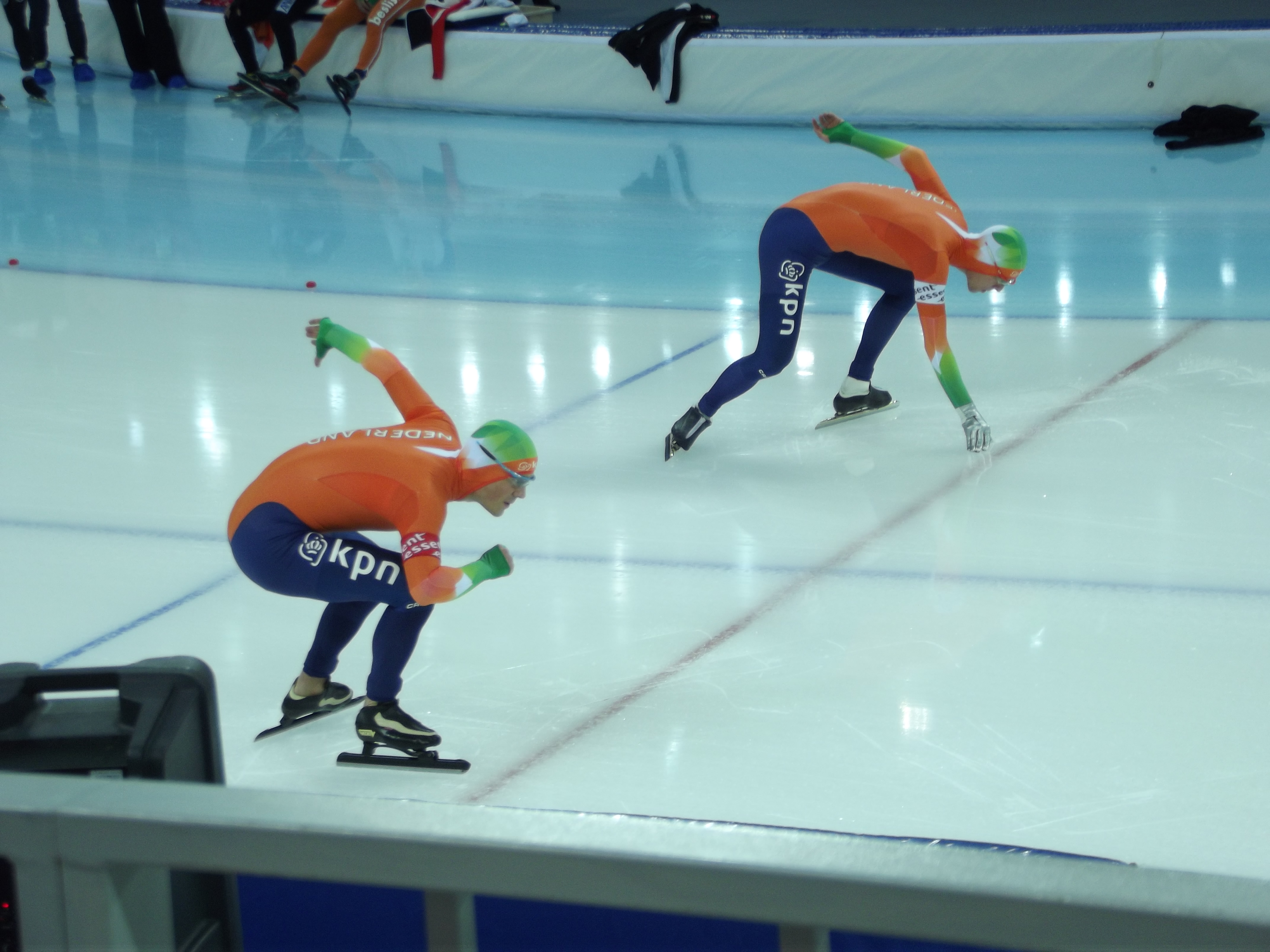 2013 World Single Distance Speed Skating Championships